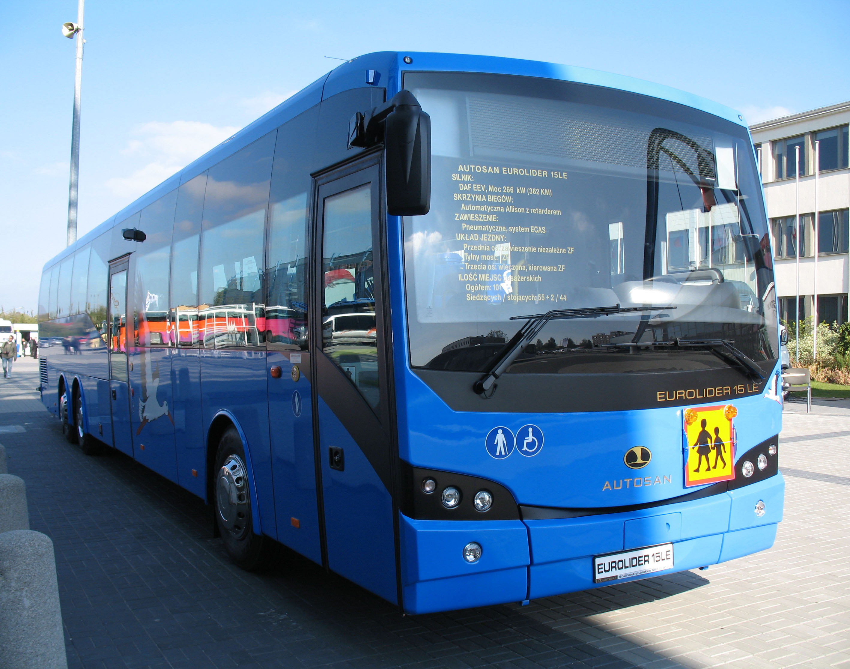 Autosan Eurolider 15 LE bus in Kielce, Poland. Built 2010, Transexpo 2010.